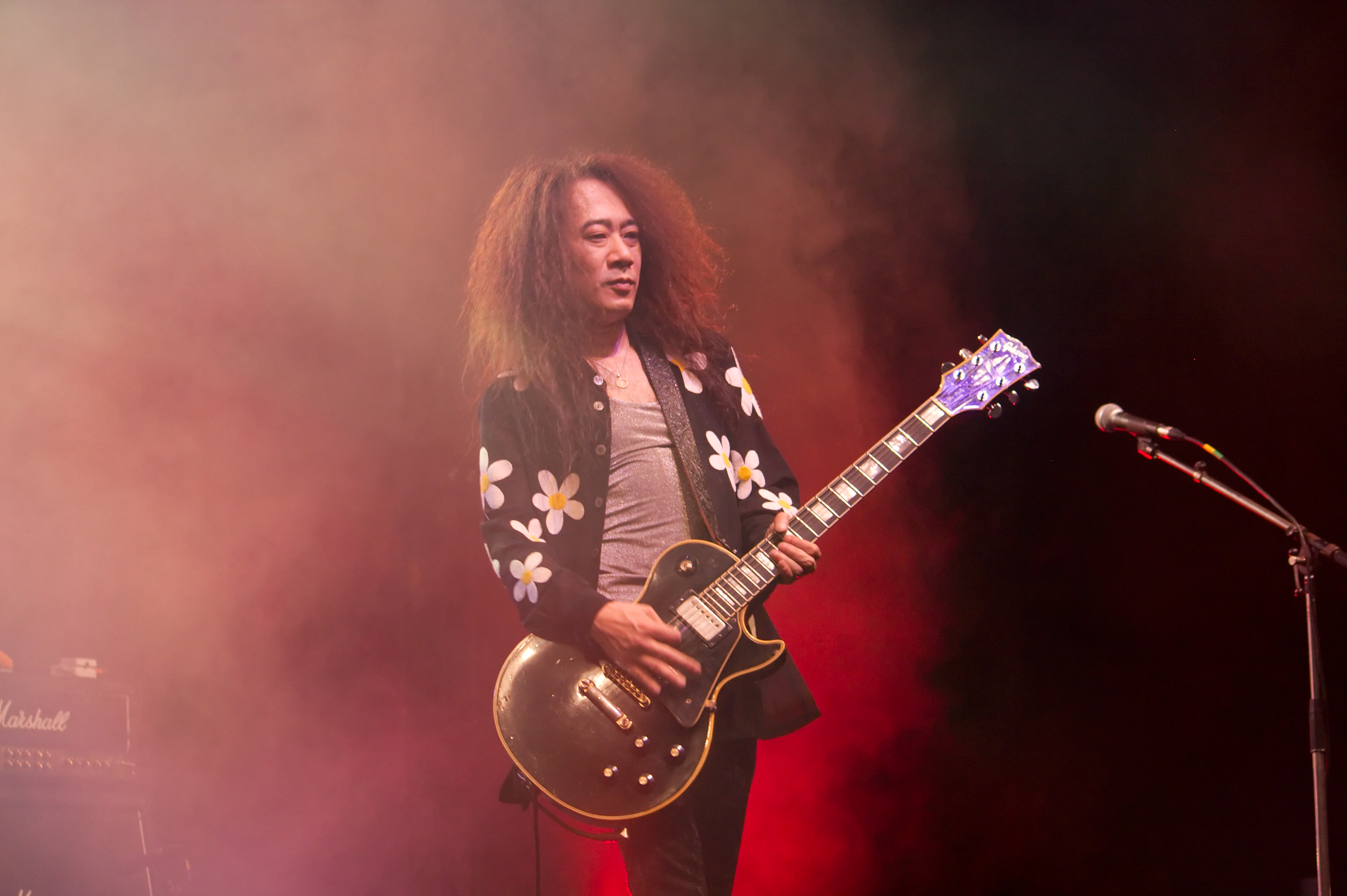 Ra:IN (Pata and Michiaki Suzuki) live at Japan Expo 2008 (Paris, France)